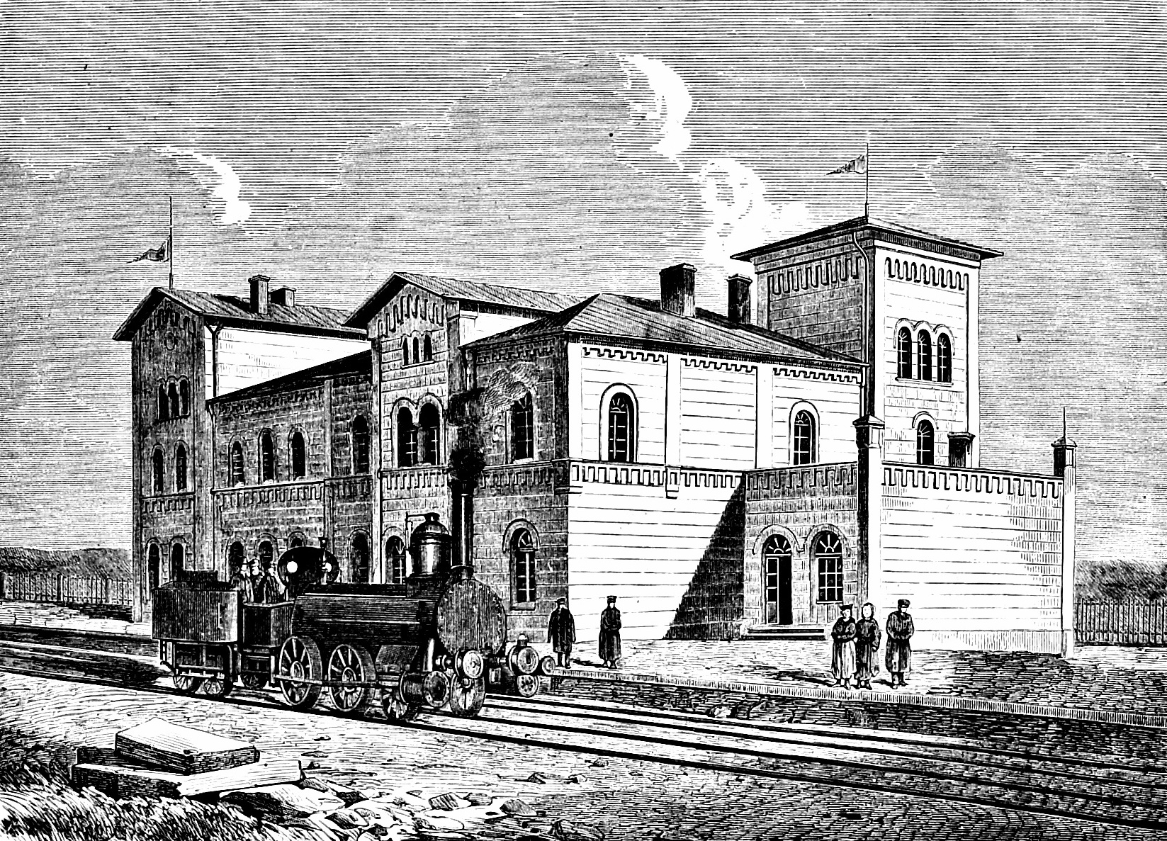 Włocławek railway station